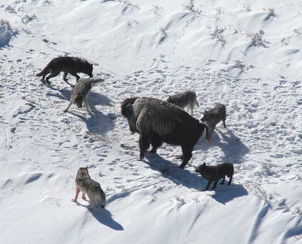 Yellowstone. Mollies Pack Wolves Baiting a Bison.